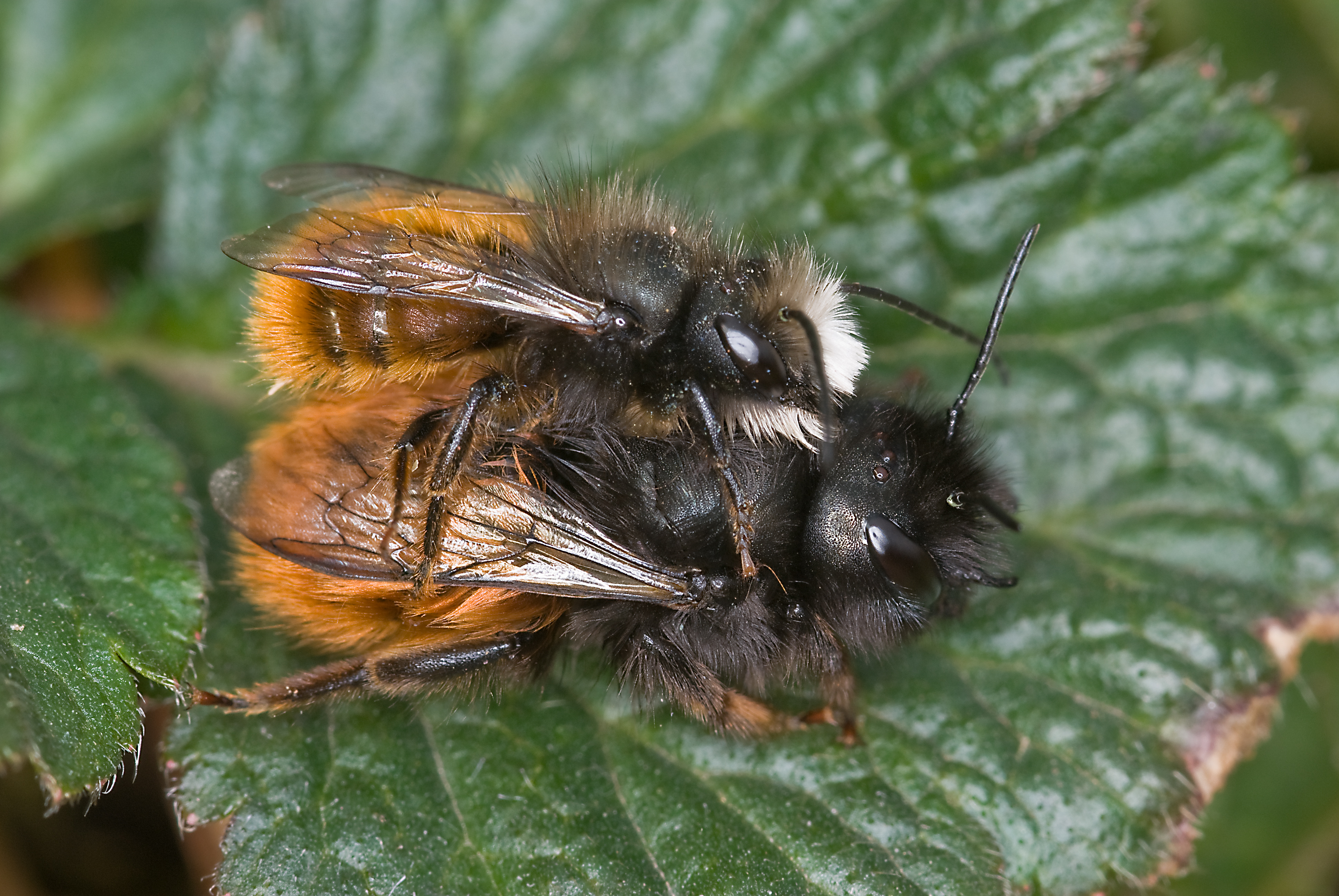 Two solitary bees (Osmia cornuta) copulating. Stuttgart, Germany.